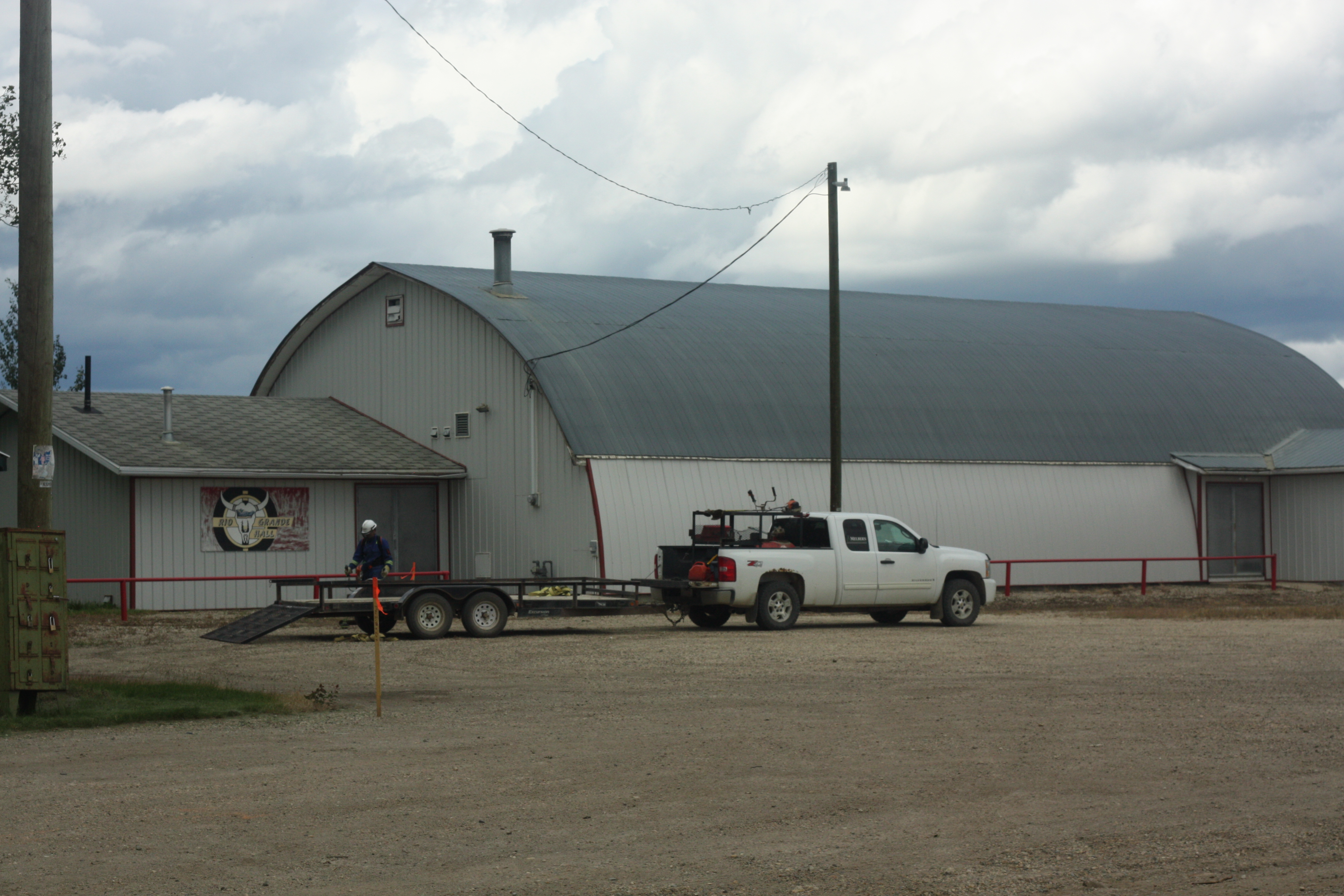 Rio Grande Hall in the County of Grande Prairie.